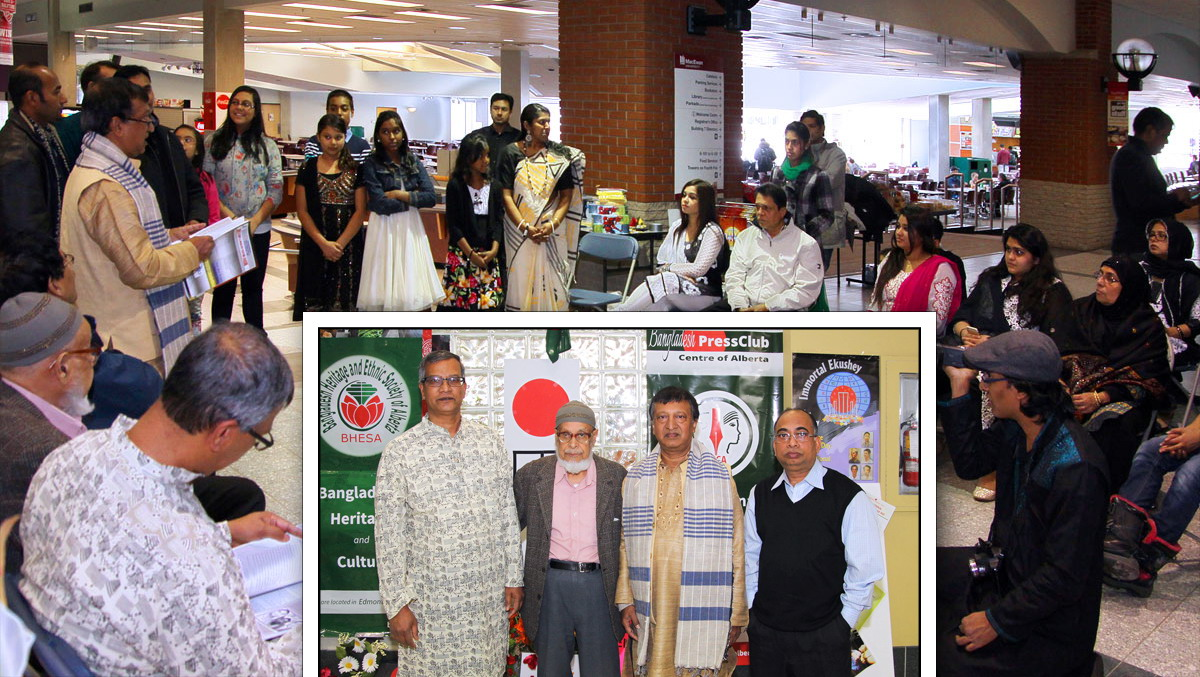 Photo Collage: "Visitors at BHESA's Ekushey February 2015", April 25, 2015 by Andy Strohkirch